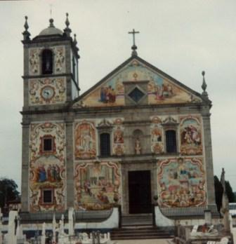 Válega's church, Aveiro, Portugal